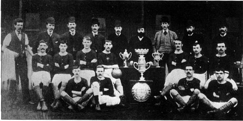 1891 Scottish Cup Winners